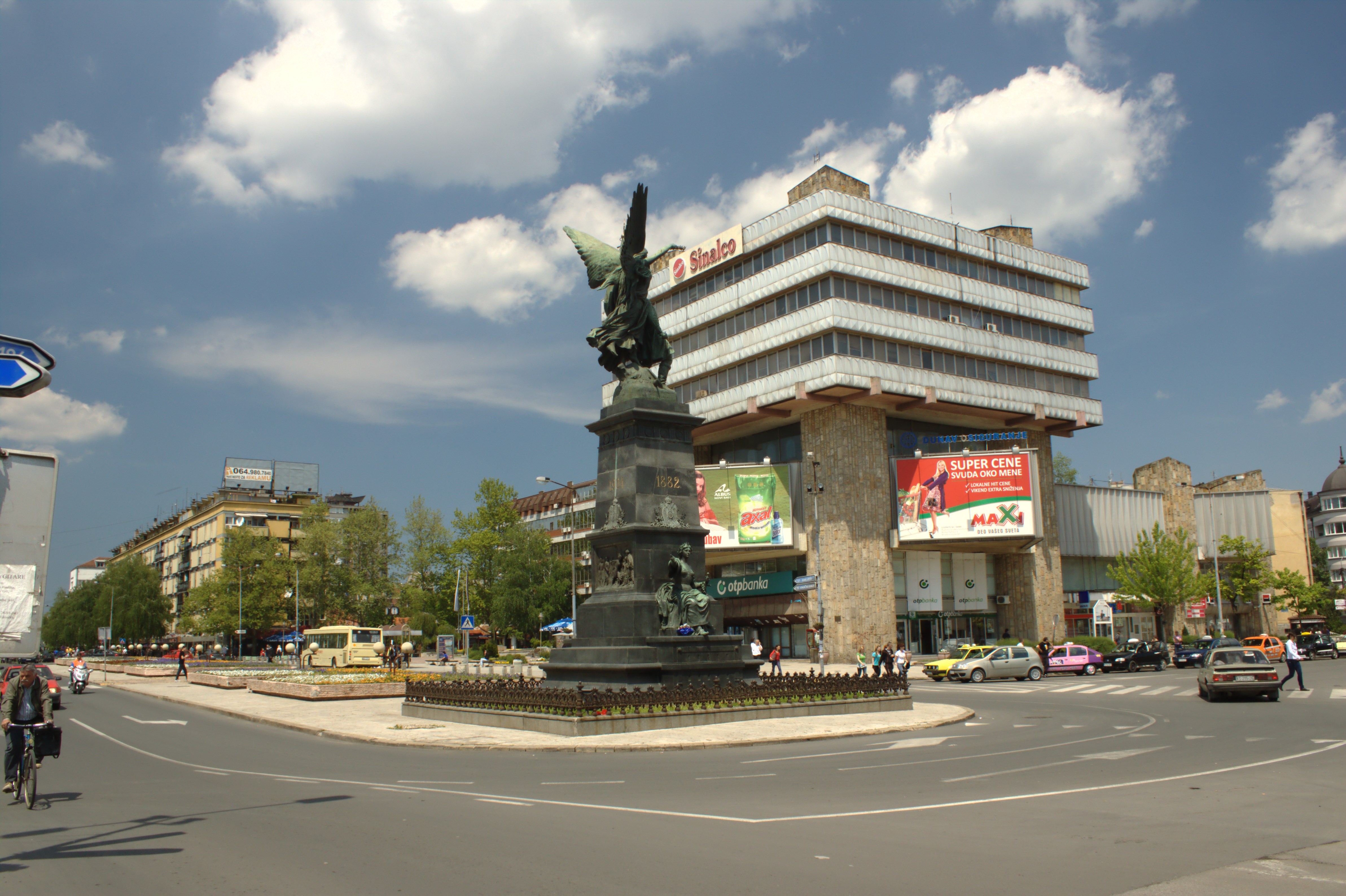 Main square in the town of Kruševac, Serbia. The black statue commemorates gain of Kosovo in the Balkan Wars